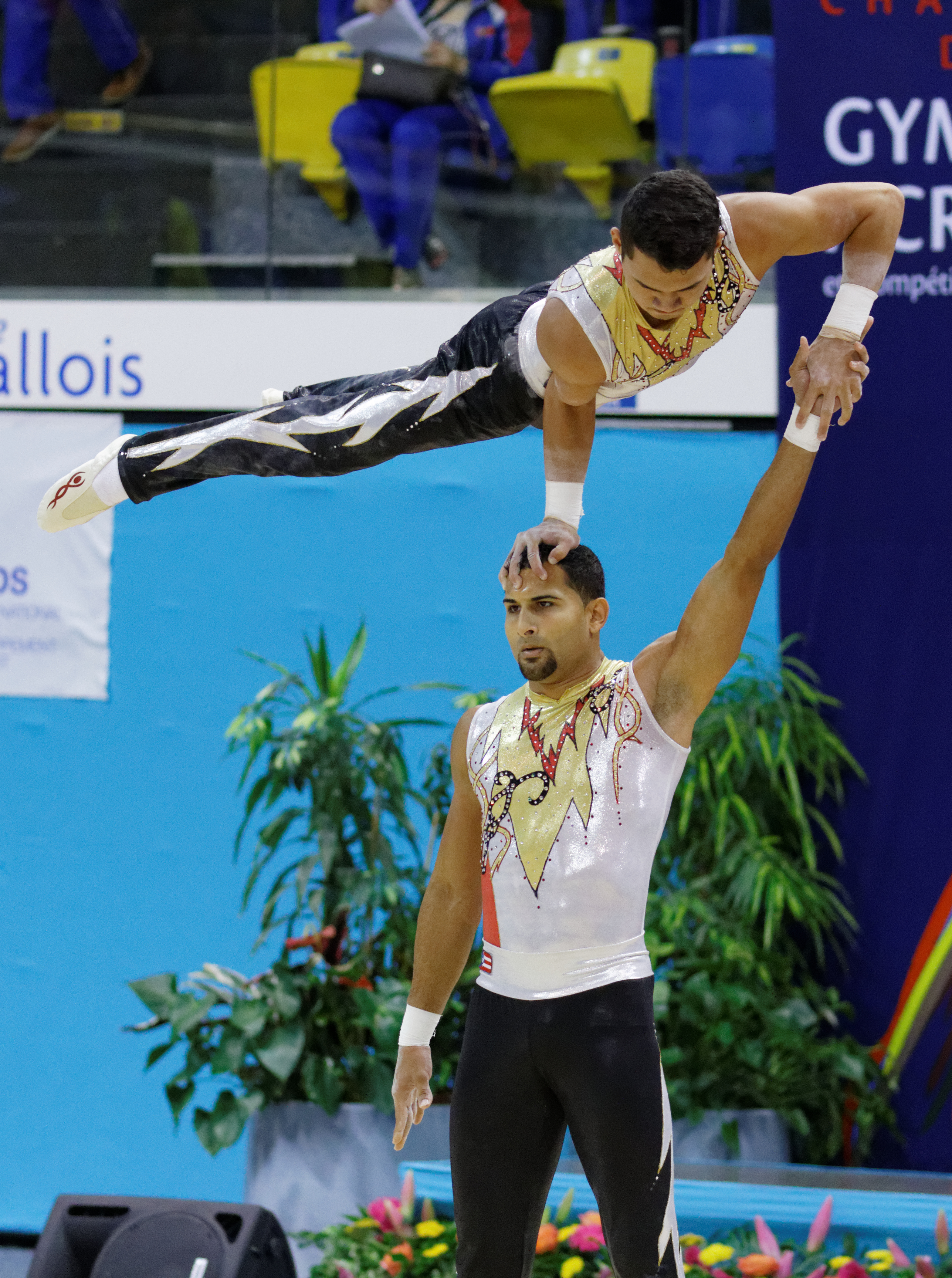 2014 Acrobatic Gymnastics World Championships, 10th-12 July, Levallois-Perret, France. Qualifications: men's pair. Puerto Rico.